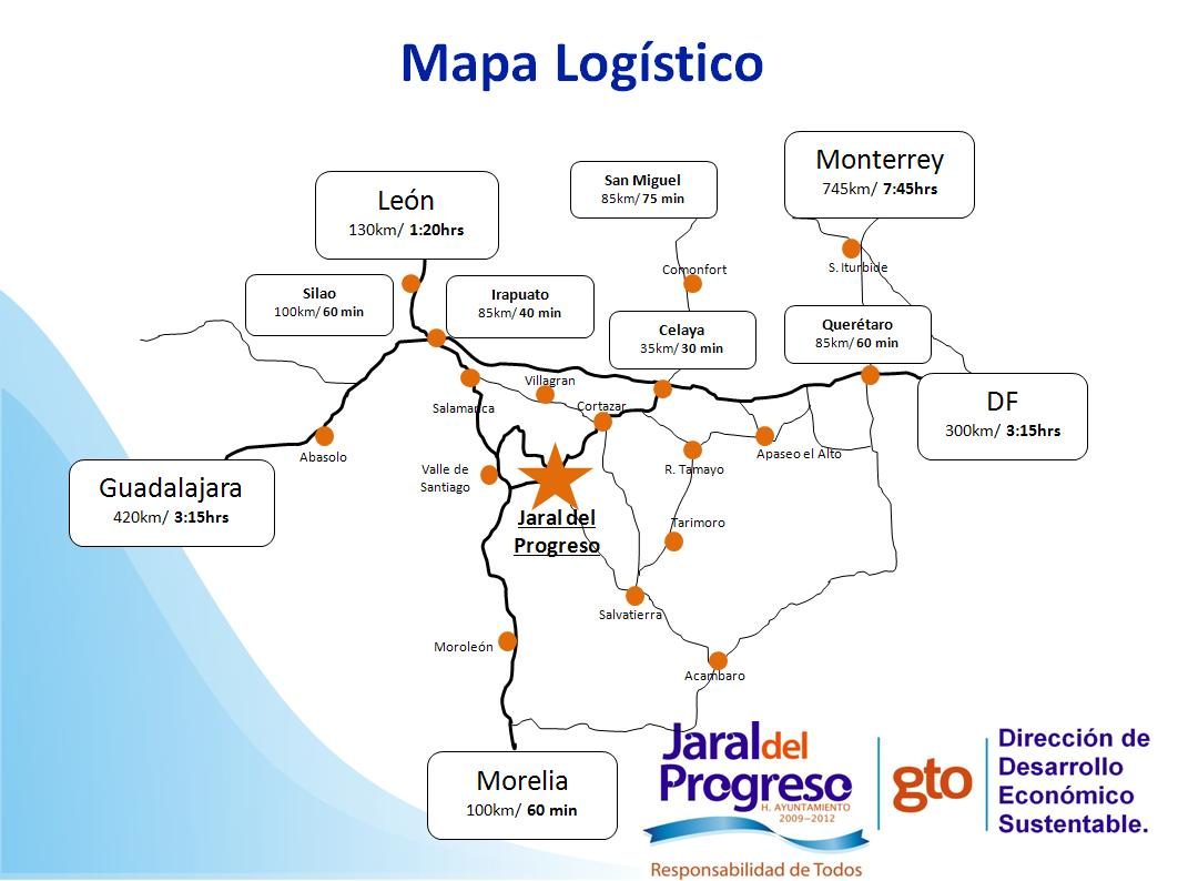 Where to go and how far is it from Jaral del Progreso